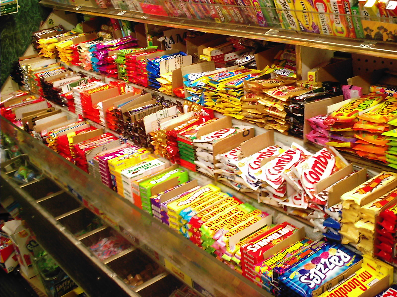 A wide variety of snacks, mostly candy, on display at a bodega in Park Slope, Brooklyn. It should be noted that the variety displayed is a bit larger than the norm offered by your local bodega: the shop is two blocks from a school.